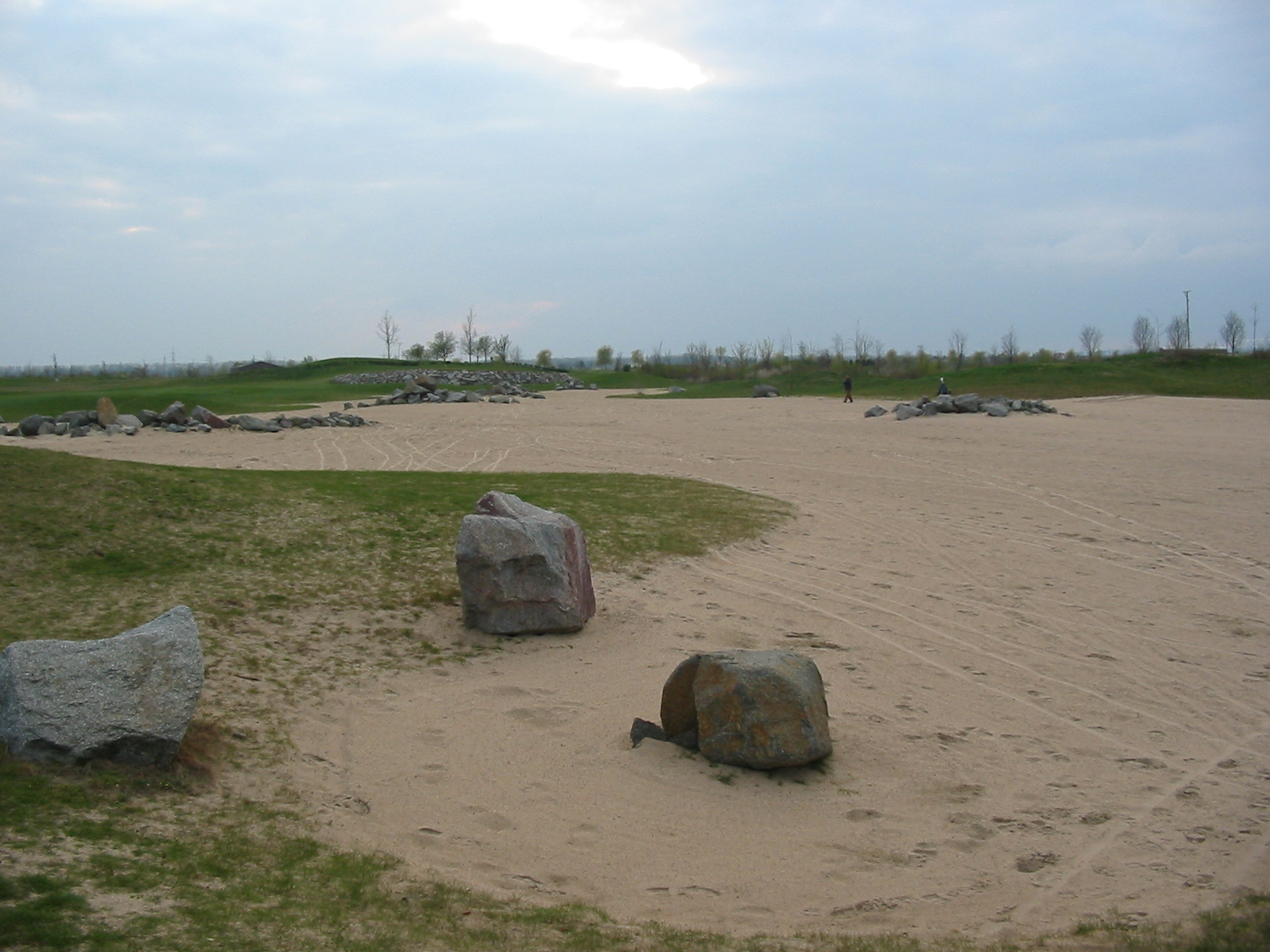 Biblis-Wattenheim Golf Course, Hole 8 of Parcours C